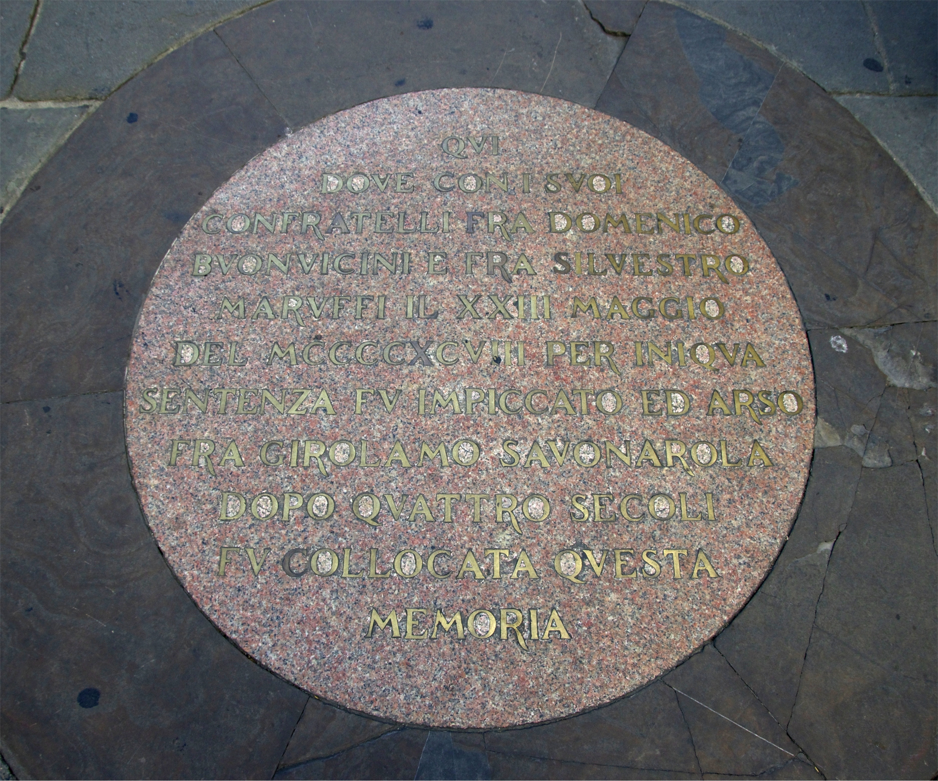 Here was hanged and burnt Girolamo Savonarola.... Plaque Piazza della Signoria, Florence, Italy.